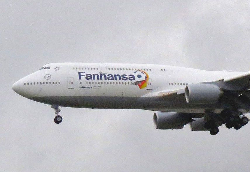 Cropped version of File:Lufthansa Boeing 747-830 D-ABYO "Saarland" "Fanhansa" 75.jpg